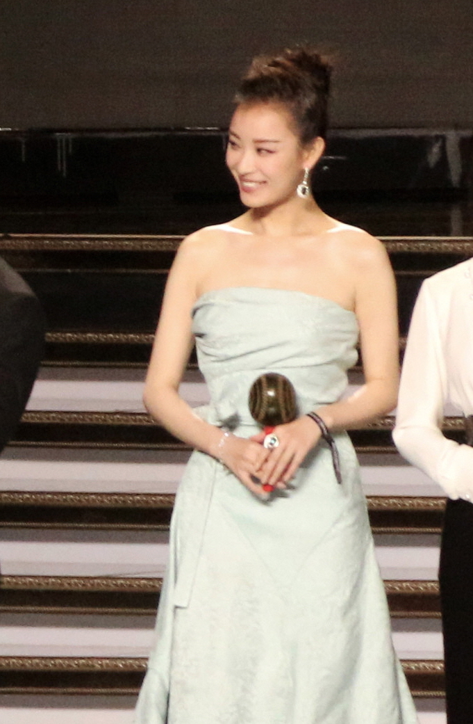 Nini 2016.9.9 芭莎明星慈善夜 cropped from original